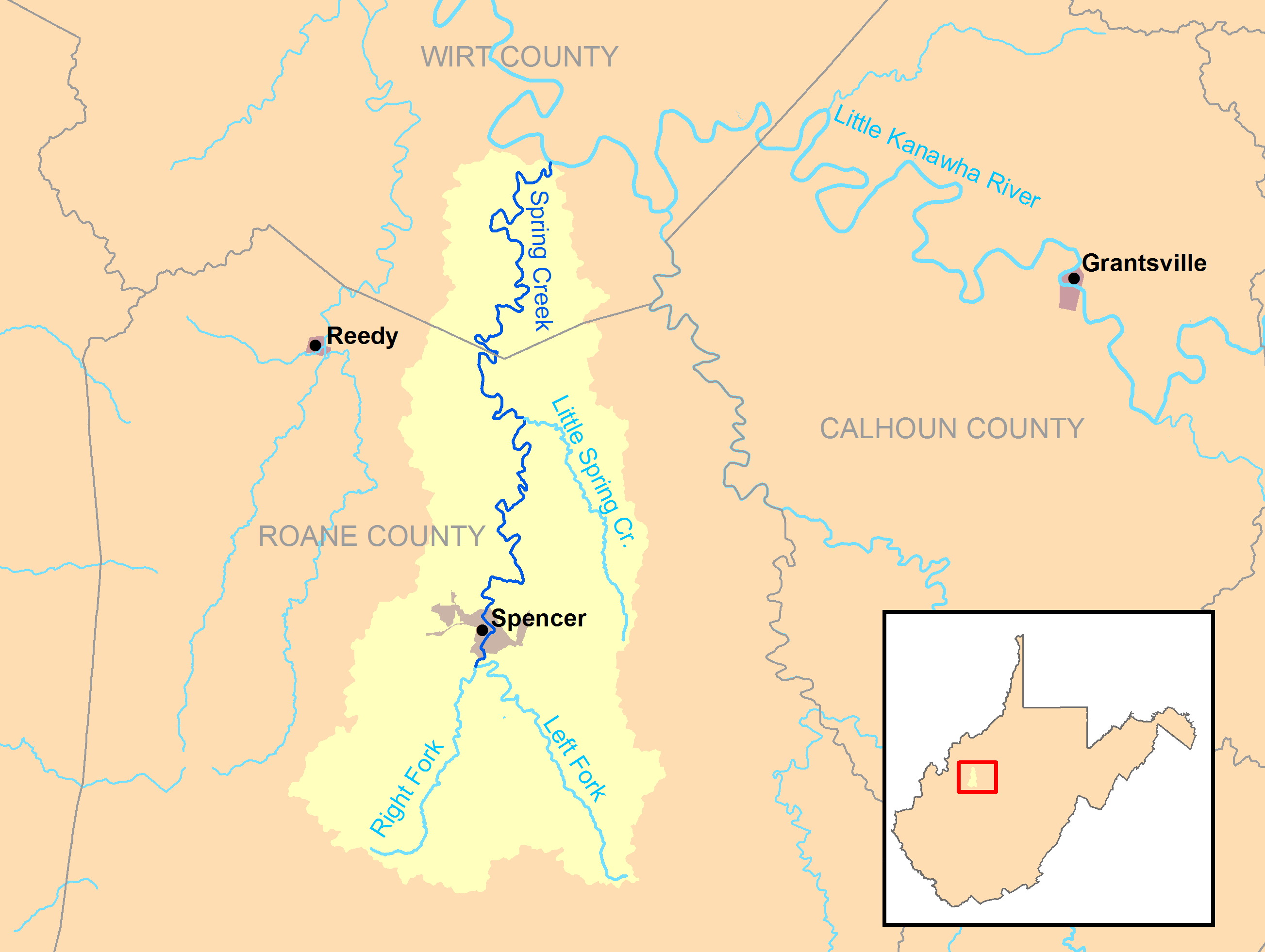 A map of Spring Creek and its watershed (USGS HUC-12 codes 050302030702 and 050302030701), in Wirt and Roane counties, West Virginia.